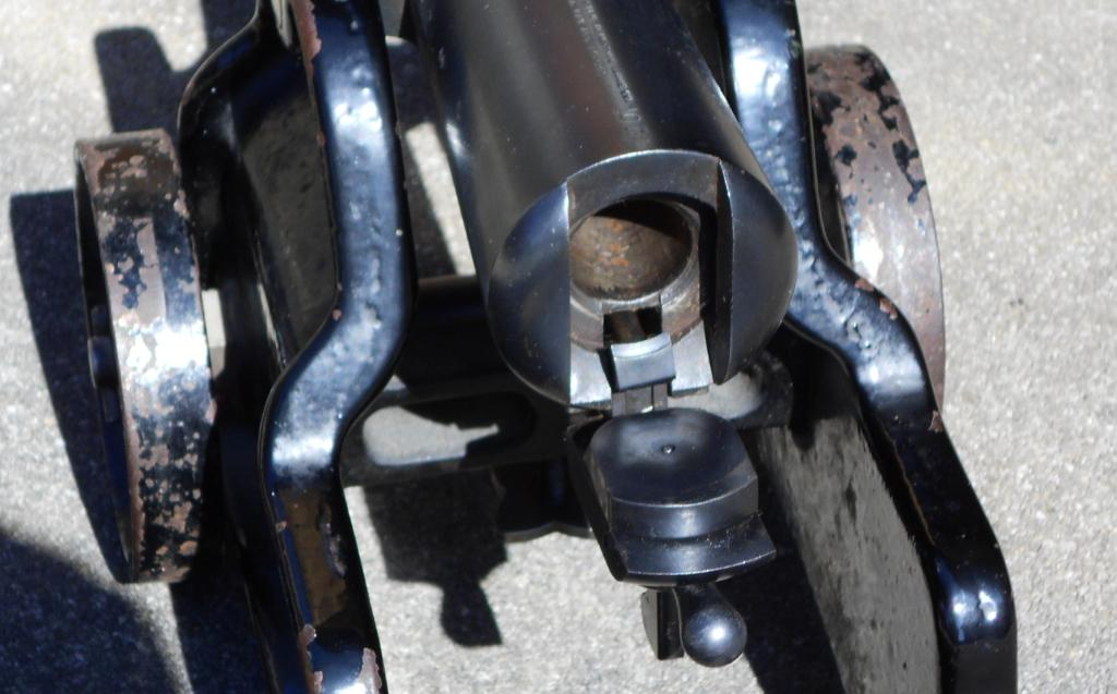 Winchester Cannon Bolt